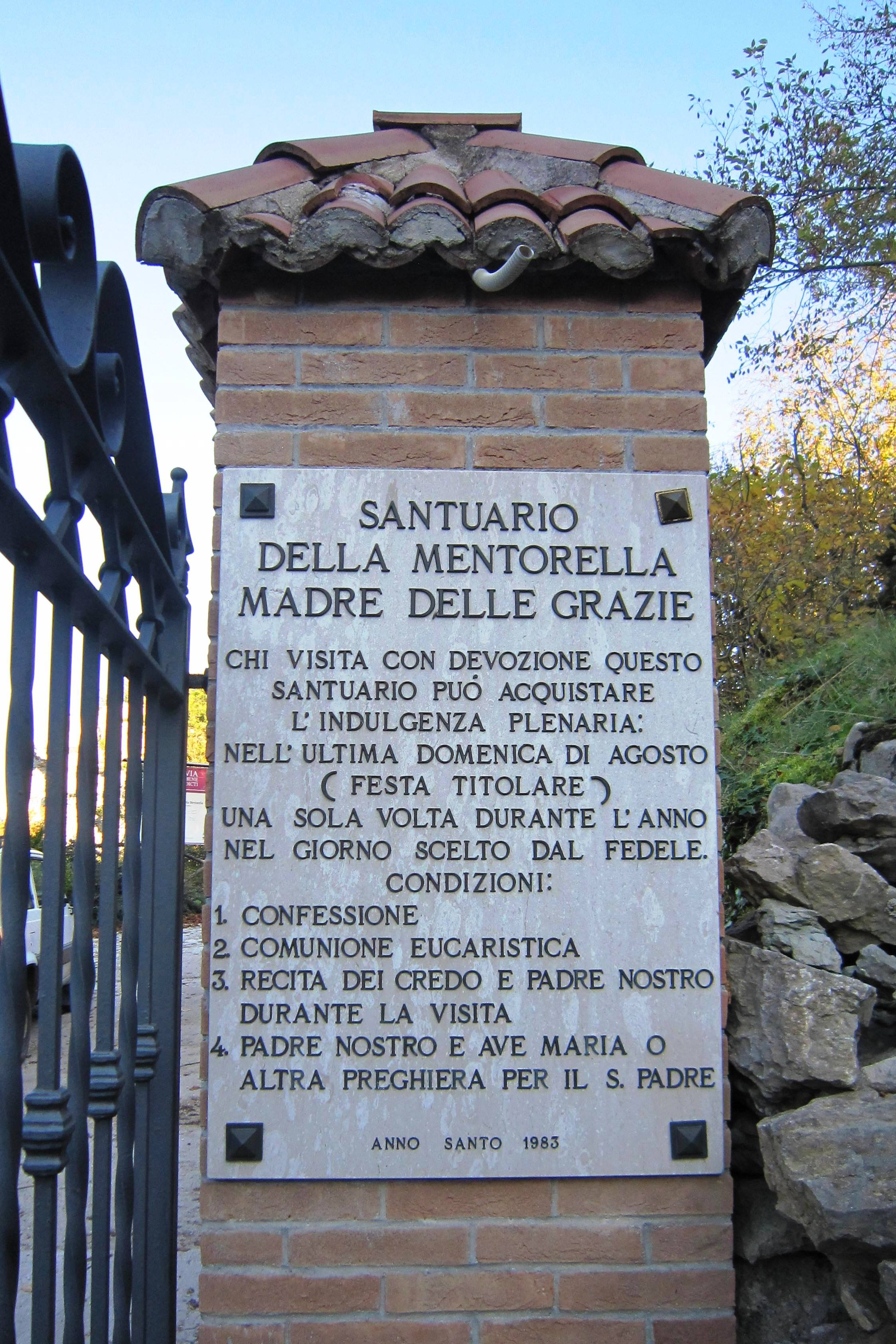 mentorella - cartello ingresso